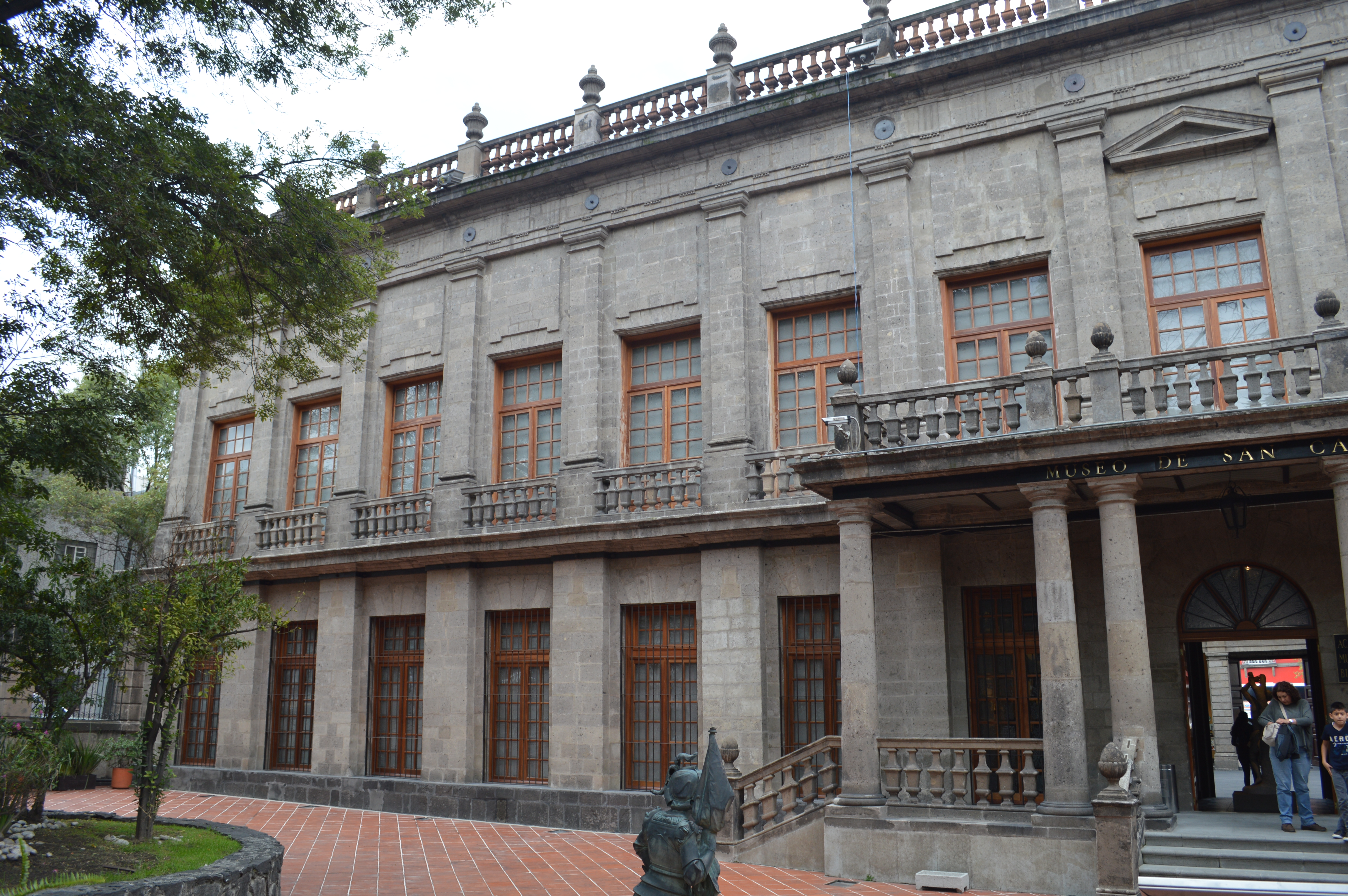 Back facade of the San Carlos Museum in Mexico City